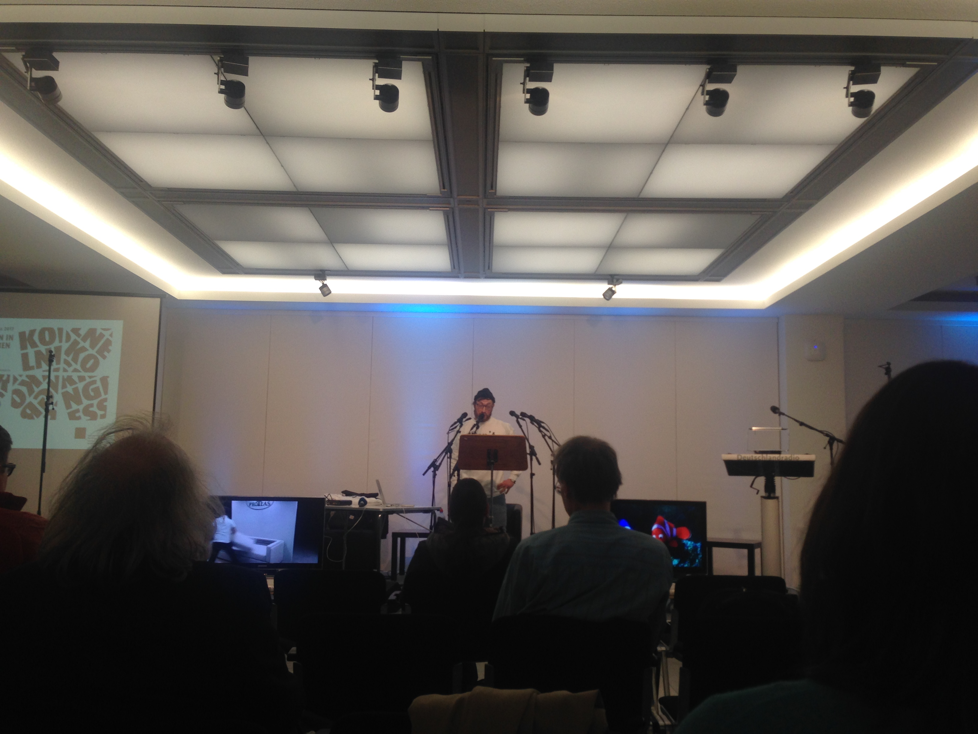 writer Jörg Albrecht at "Kölner Krongress 2017", performing his "Textkonzert" at 2017-03-11